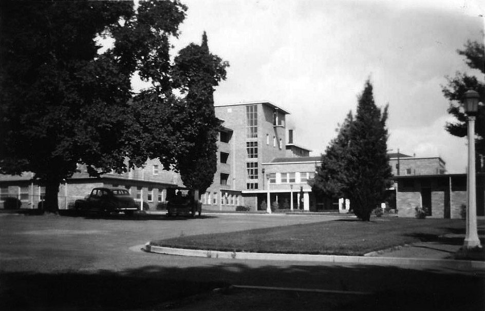 Royal Canberra Hospital on Acton Peninsula 1948 Original image caption: Royal Canberra Hospital, Main Entrance and Casualty. December 1948